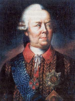 Portrait of Pyotr Alexandrovich Rumyantsev-Zadunaisky